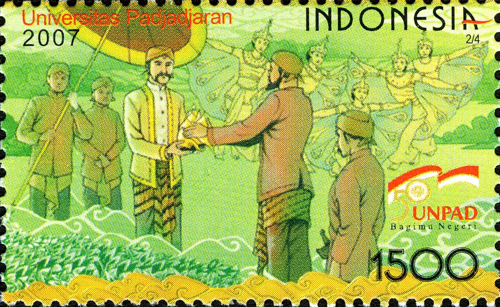 Stamps of Indonesia